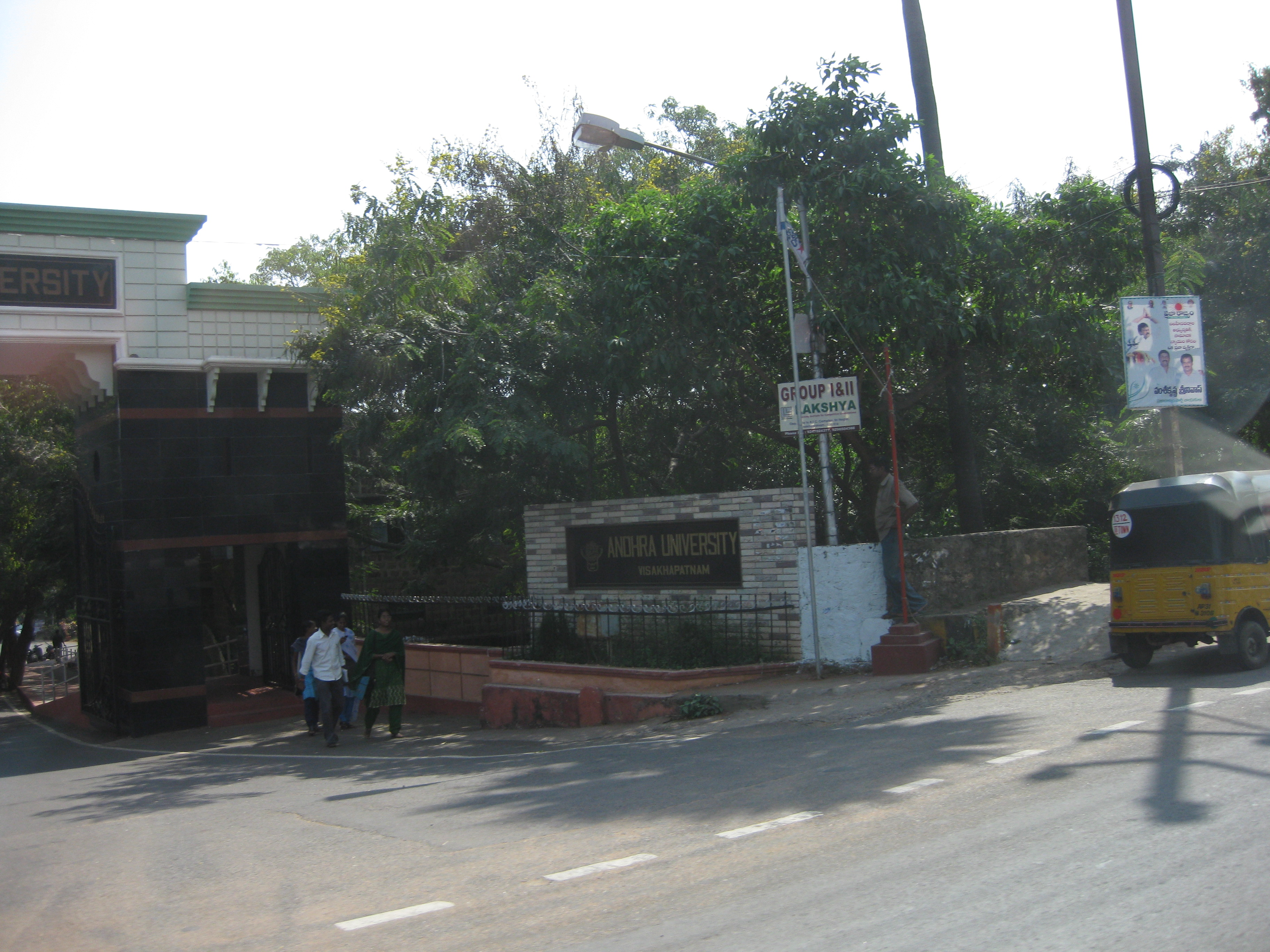 Andhra University entry gate